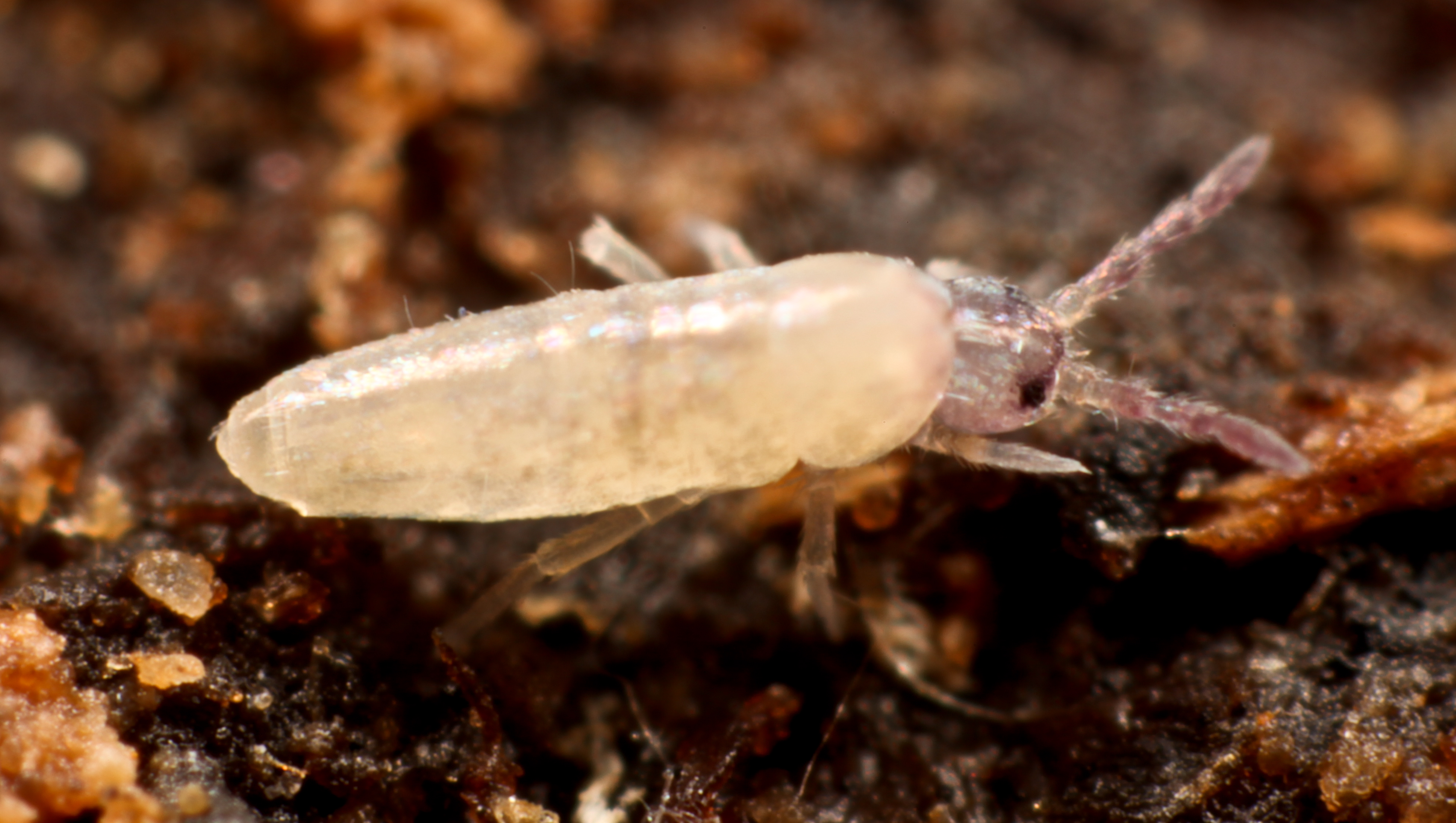 Lepidocyrtus lanuginosus from England.